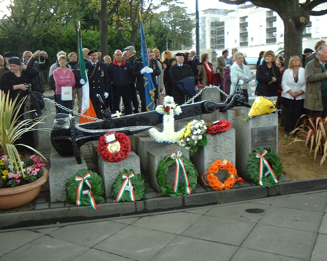 90th commemoration of RMS Leinster